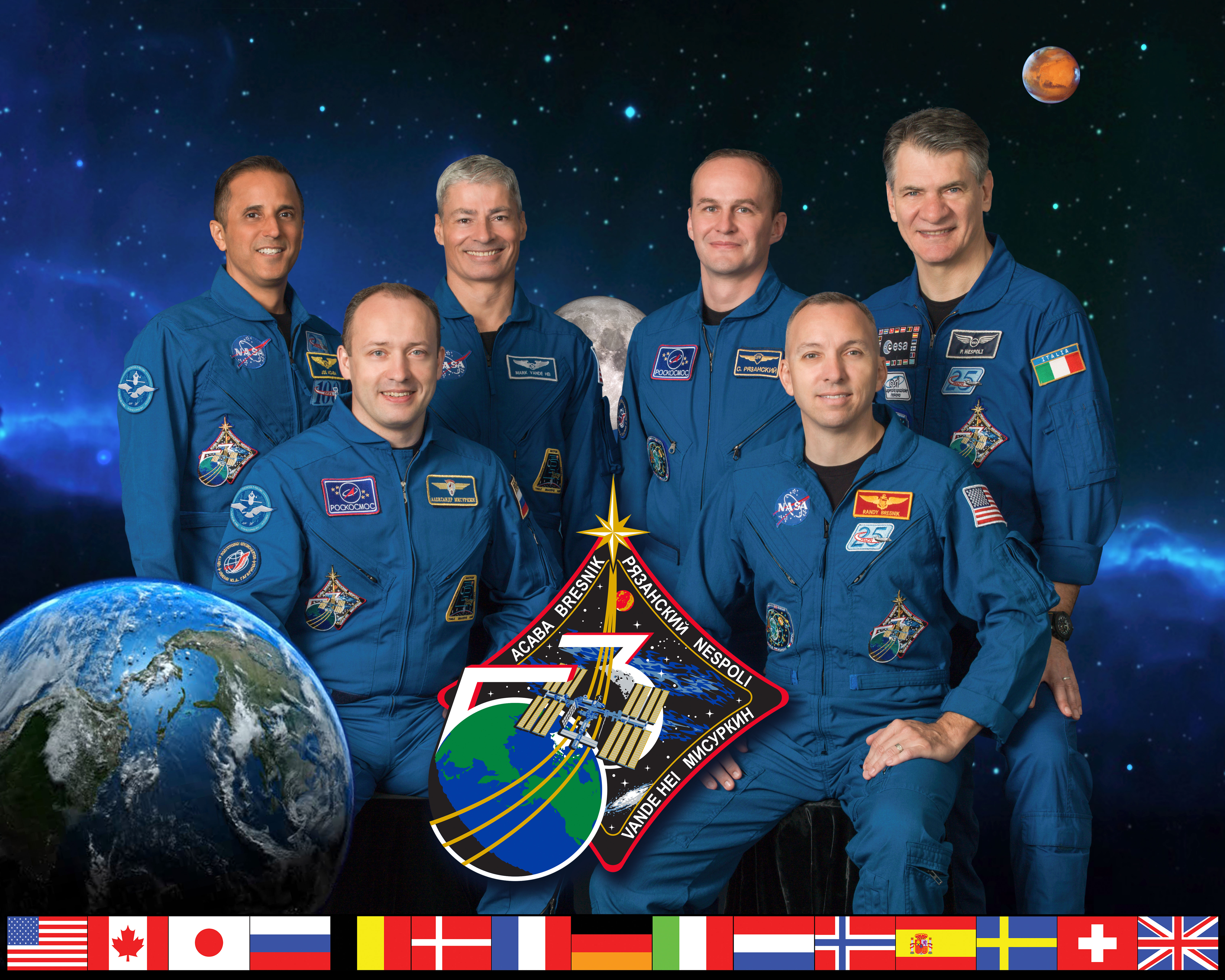 The six-member Expedition 53 crew poses for an official crew portrait at the Johnson Space Center in Houston, Texas. Seated in the front (from left) are Flight Engineer Alexander Misurkin of Roscosmos and Commander Randy Bresnik of NASA. Standing in the back (from left) are NASA astronauts Joe Acaba and Mark Vande Hei, Sergey Ryazanskiy of Roscosmos and Paolo Nespoli of the European Space Agency.